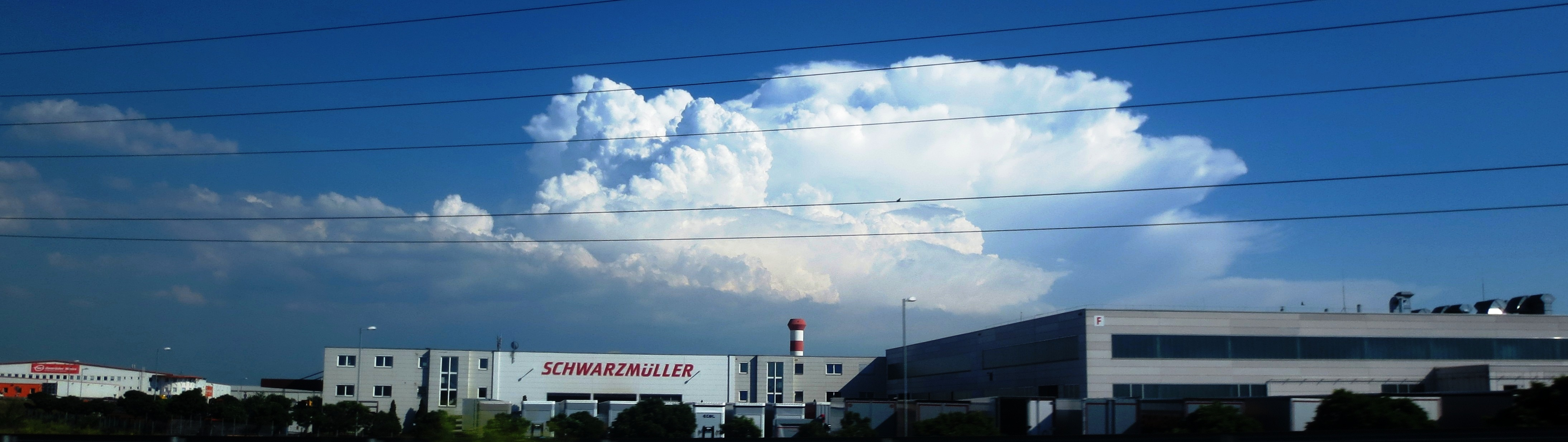 Image from the southern / southeastern part of Budapest, not far from the airport along E71 highway. Budapest, Hungary.